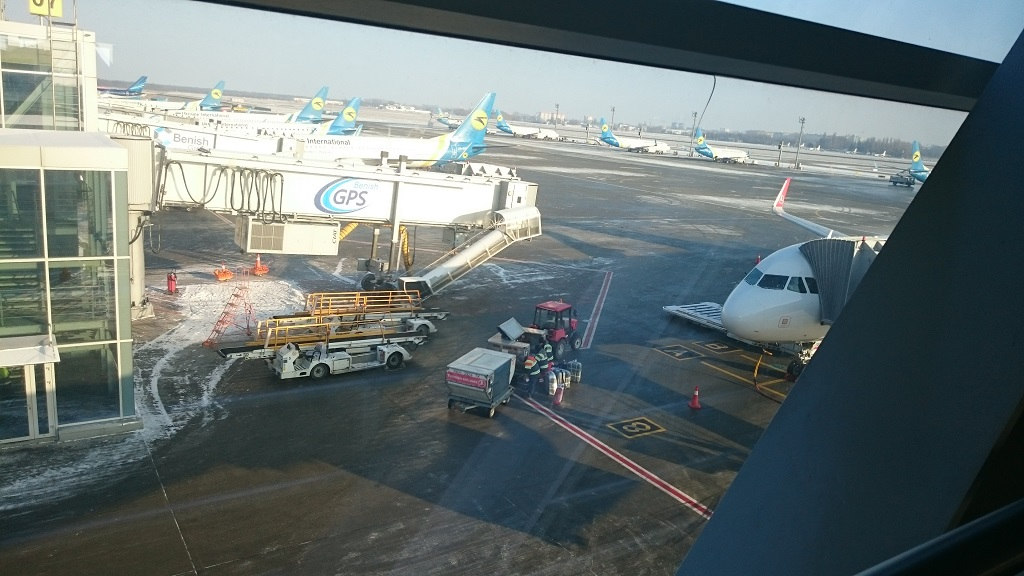 Apron and jet bridge at terminal D, Boryspil International Airport (KBP), Kyiv, Ukraine. Boarding Turkish Airlines A321 and view on Ukraine International Airlines (UIA) metal, and AZAL on the far left.